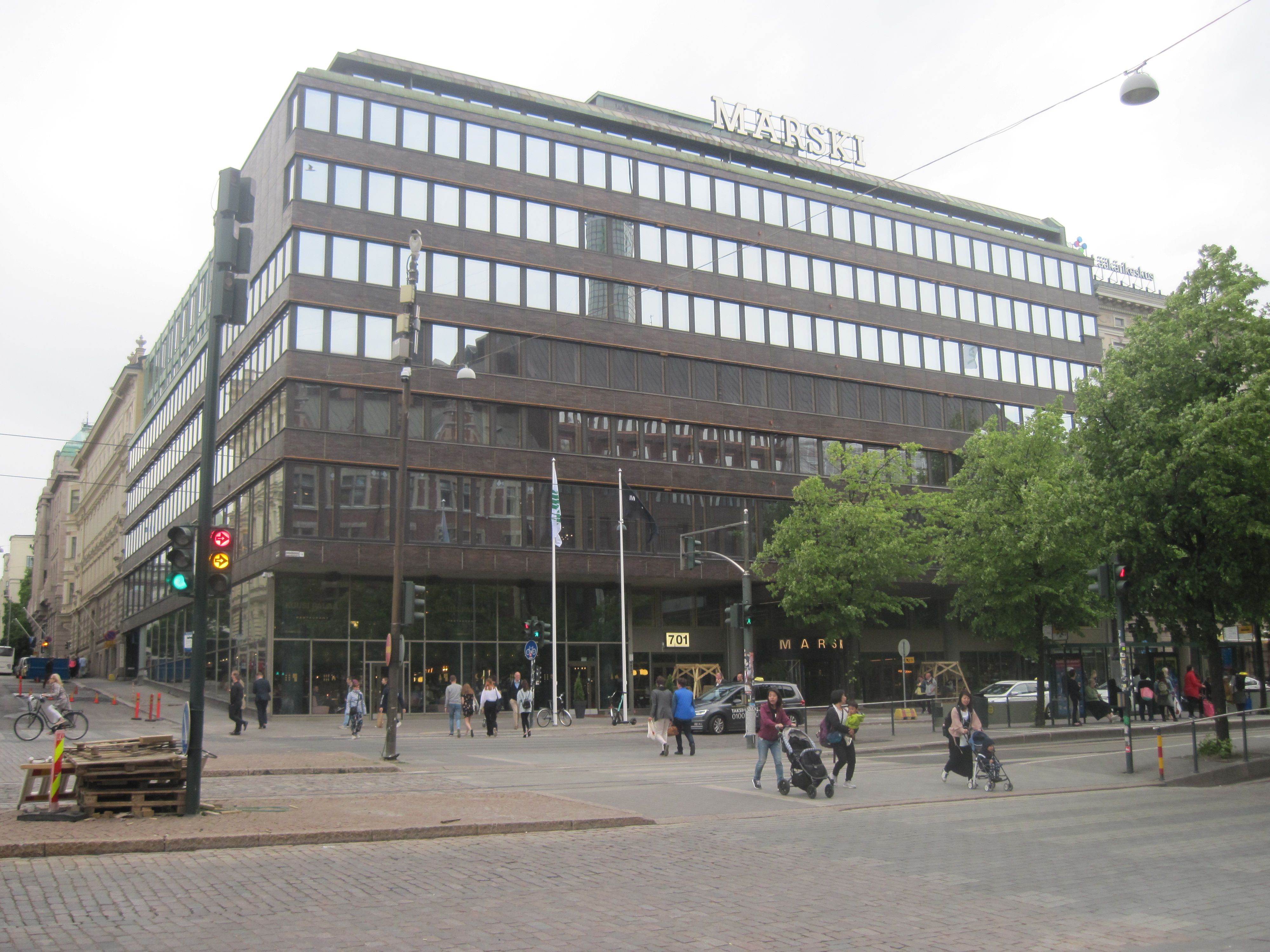 Hotel Marski, Mannerheimintie 10, Helsinki, Finland